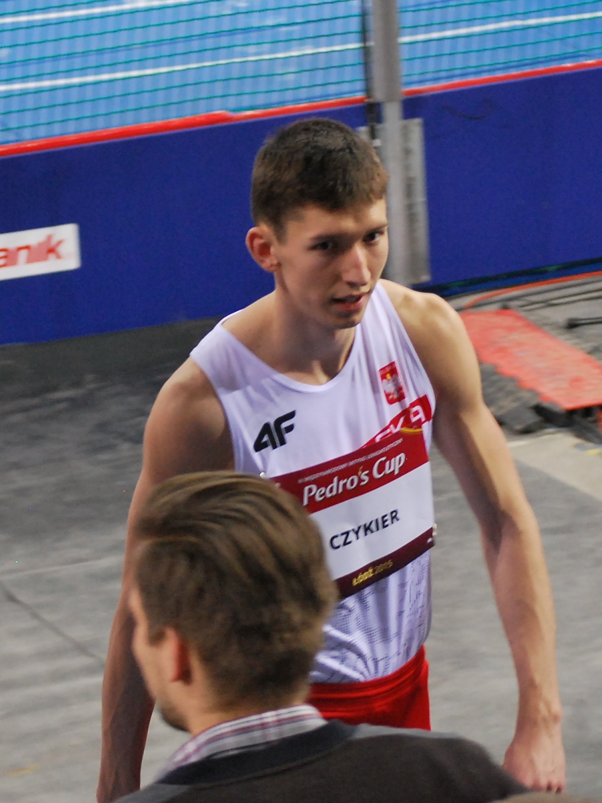 Pedros Cup 2015 Łódź, Damian Czykier, hurdler form Poland